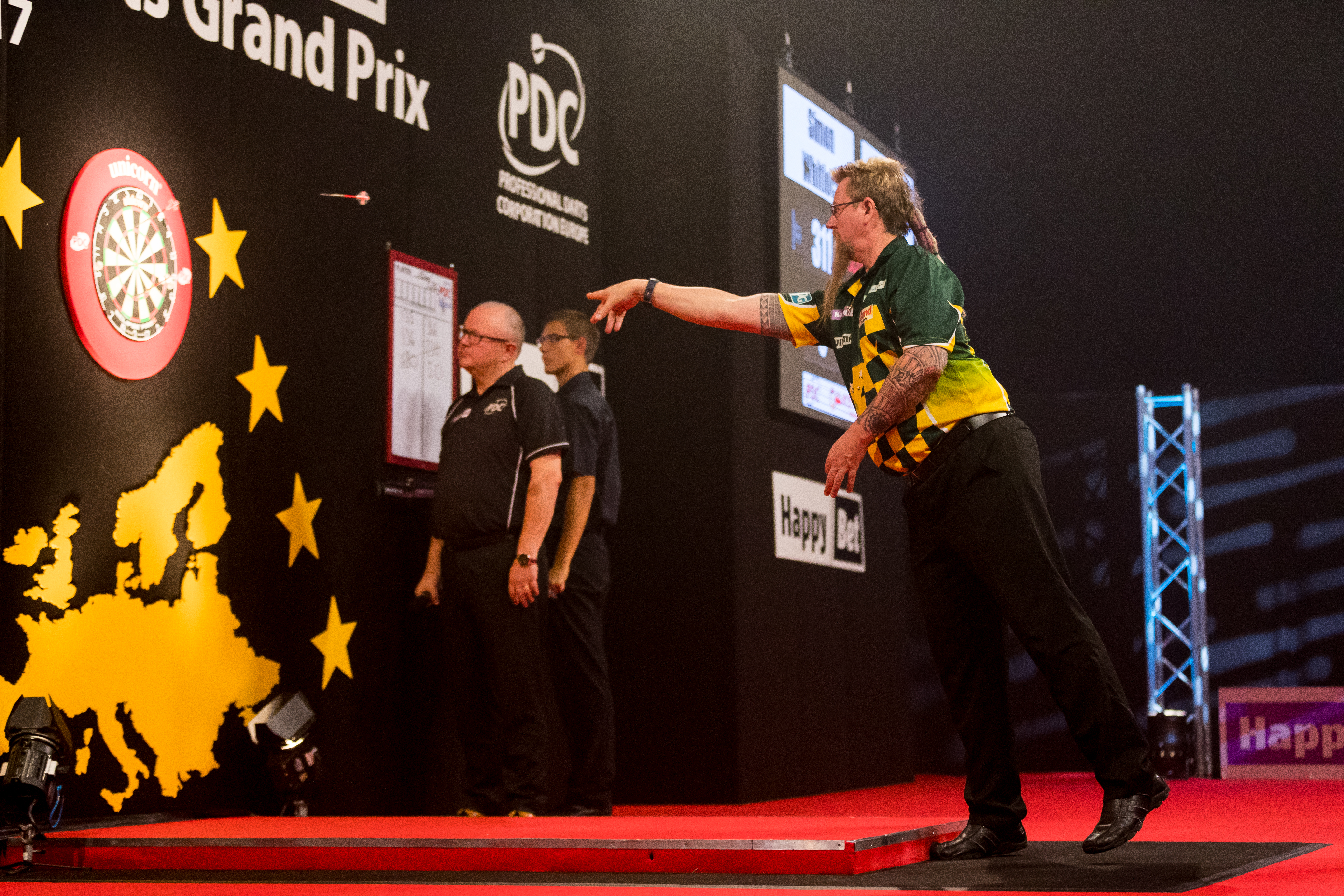 [4] Simon Whitlock (AUS) 6:2 [5] Michael Smith (ENG) during Professional Darts Corporation (PDC), German Darts Grand Prix (GDGP) at Maimarkthalle, Mannheim, Baden-Württemberg, Germany on 2017-09-10, Photo: Sven Mandel